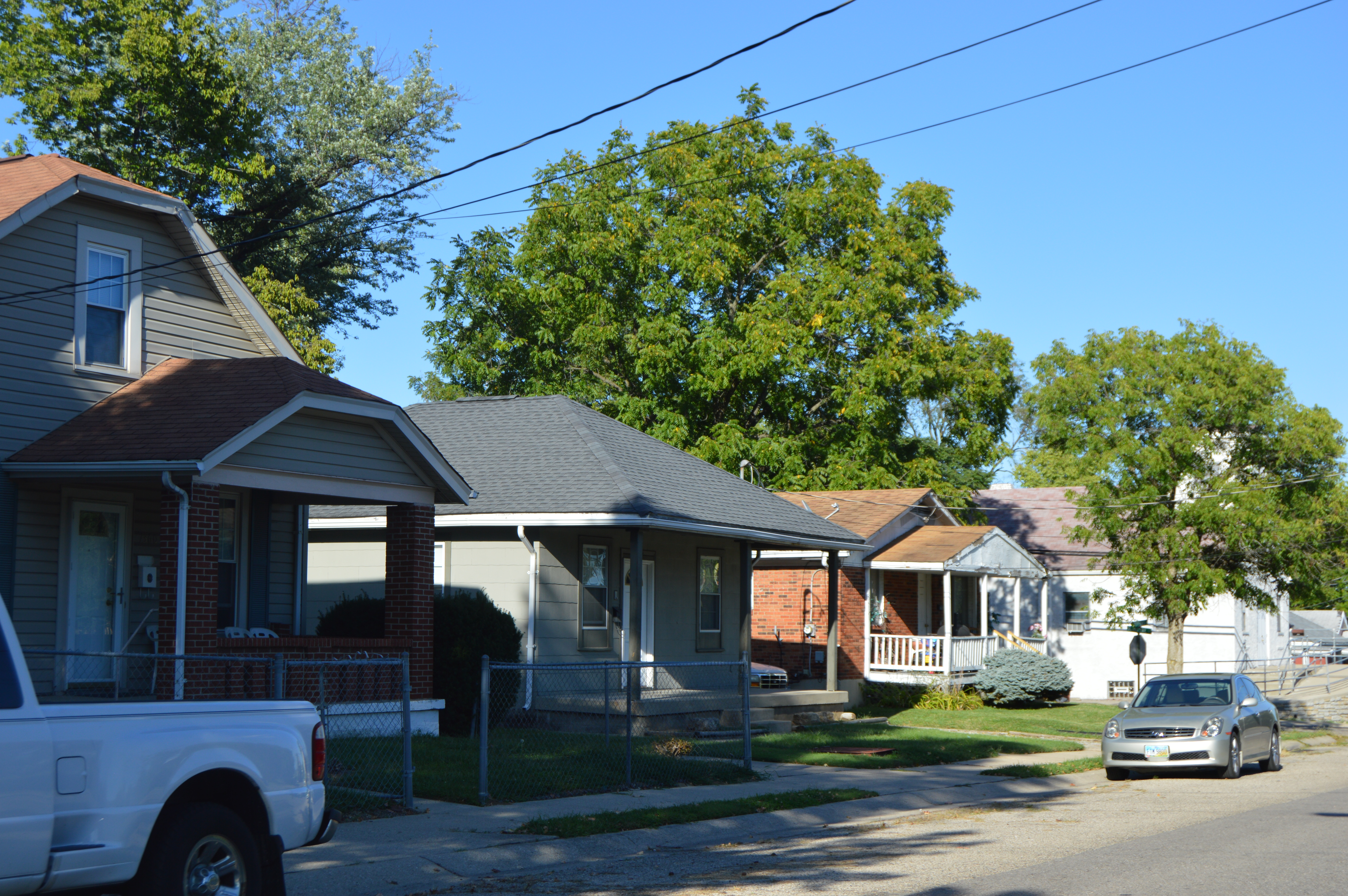 Houses on the northern side of Steffen Avenue just west of the McIntyre Avenue intersection (which is visible at far right) in Lincoln Heights, Ohio, United States.